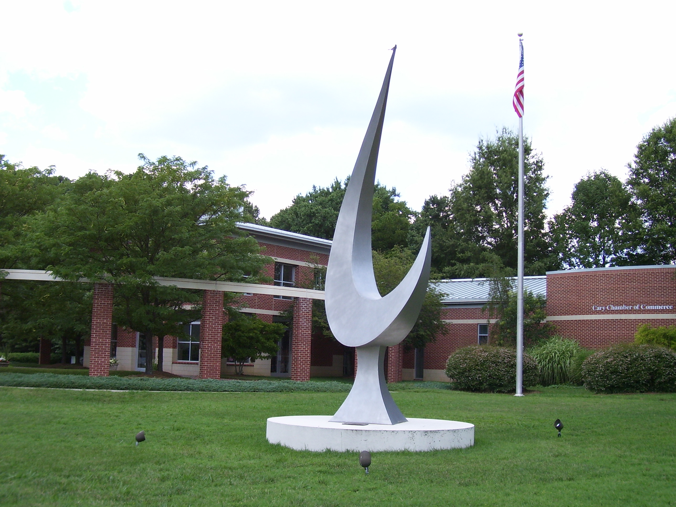 Picture of the Cary Chamber of Commerce. Picture taken in July, 2007 by Heavenly Hedgehog (English Wikipedia user). File:CaryChamberofCommerce.jpg by HeavenlyHedgehog, 7/23/2007 2:22 (UTC)